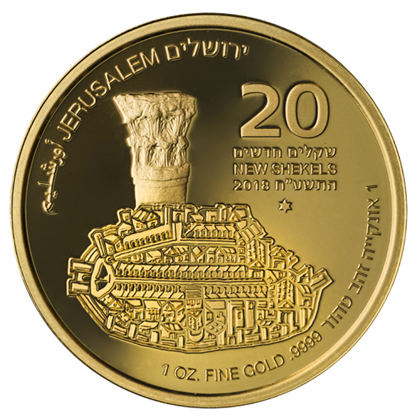 "The Madaba Map and in the background, one of the Cardo pillars. In the upper border is the inscription “Jerusalem” in English, Hebrew and Arabic, upper right, is the face value "20 New Shekels" and mint year in Hebrew and English. Below is the Star of David mint mark and around the lower border is the metal fineness and weight, “1 oz. fine gold .9999” in Hebrew and English."